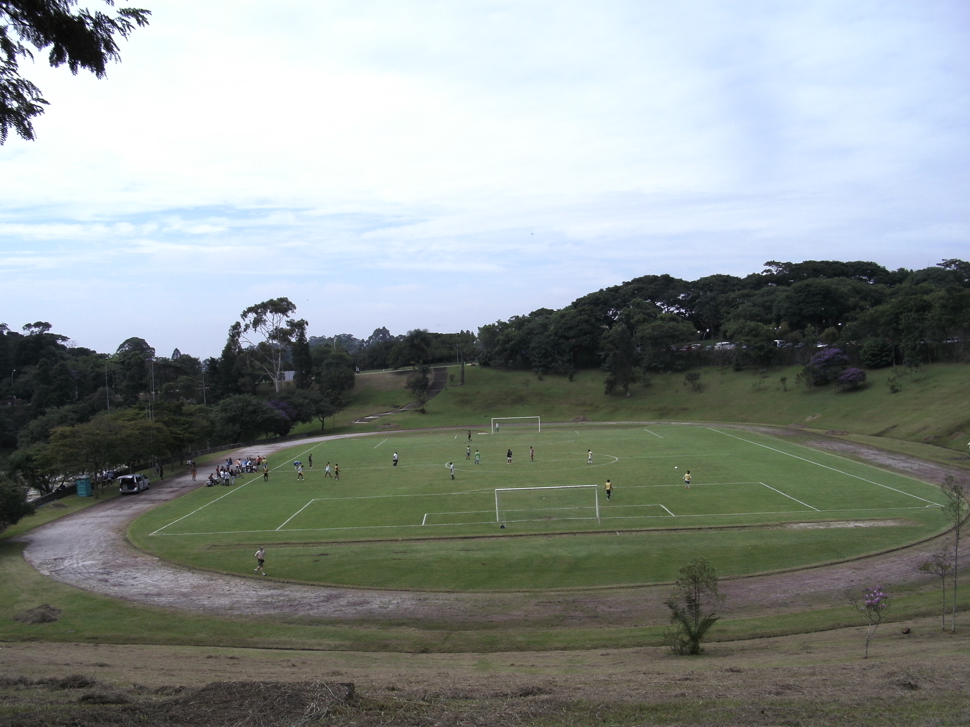 sesc interlagos